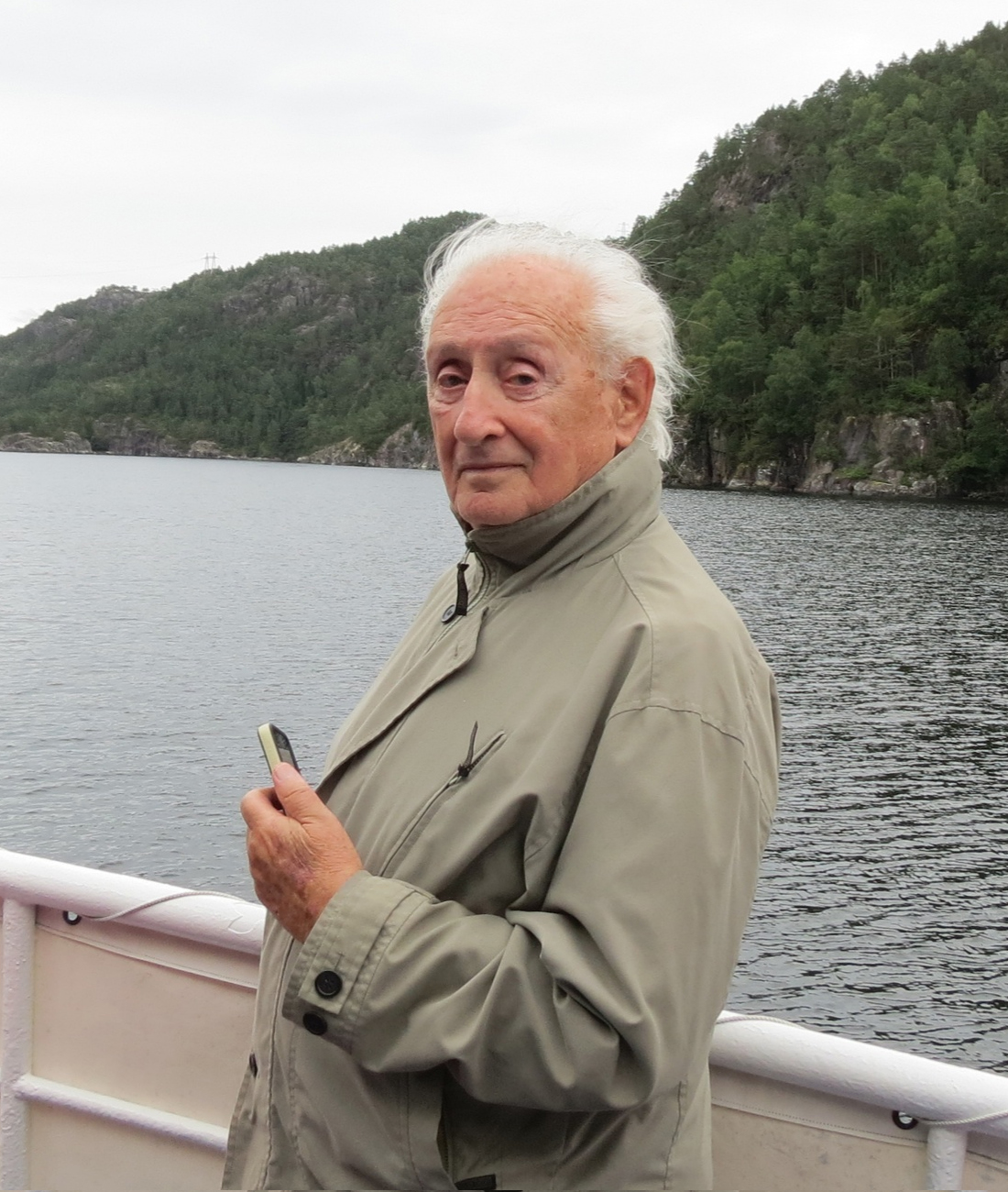 A photo of Mattityahu Mintz in Bergen, Norway, taken on 1st August 2013 by Shahar Mintz, his grandson.